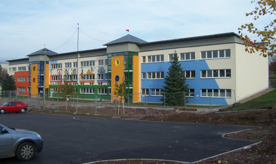 The Kindergarten in Wutha-Farnroda - Fliederweg.